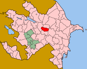 Map of Azerbaijan showing Ujar (Ucar) rayon.